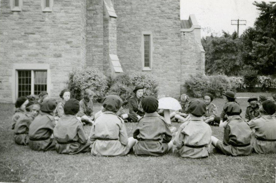 Story time with 71st Toronto Pack, 1938